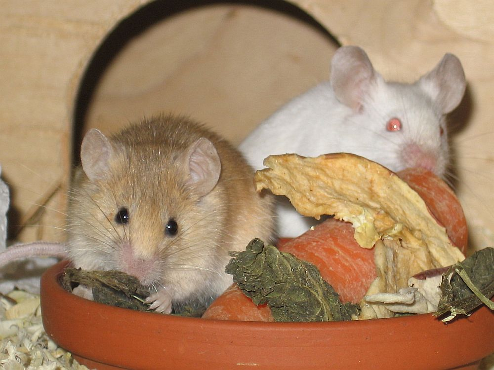 Mus musculus forma domestica